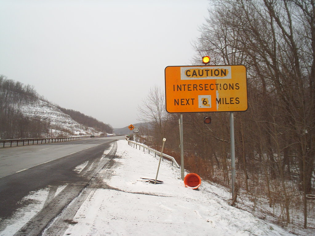 U.S. Route 219's freeway bypass of Limestone, New York. The signage to the right denotes the grade crossing intersections along the freeway.